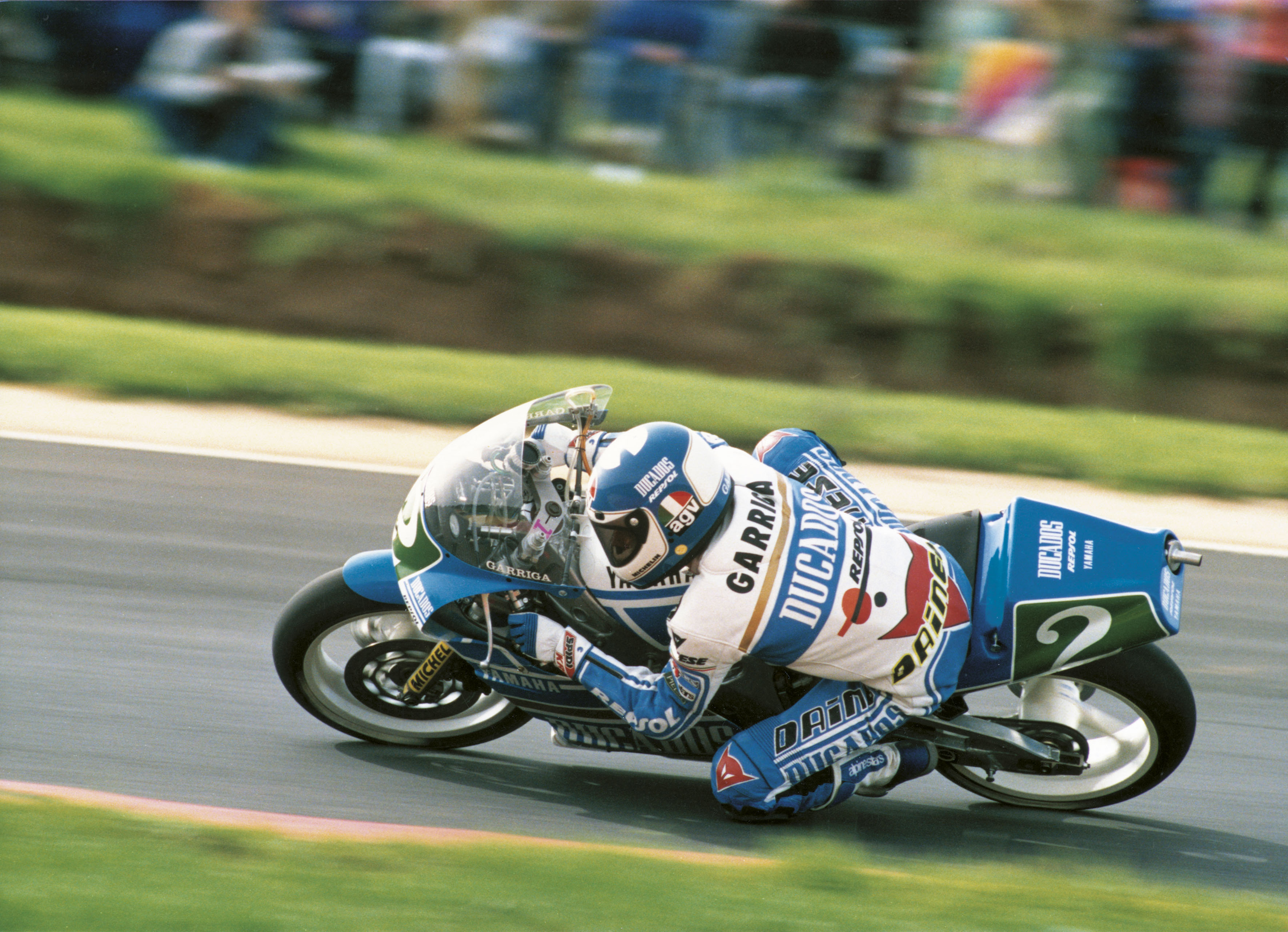 Juan Garriga, riding his 250cc Ducados Yamaha at the 1989 Australian Grand Prix.